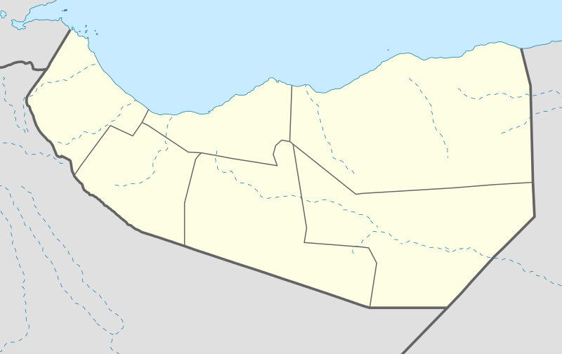 Location of Somaliland